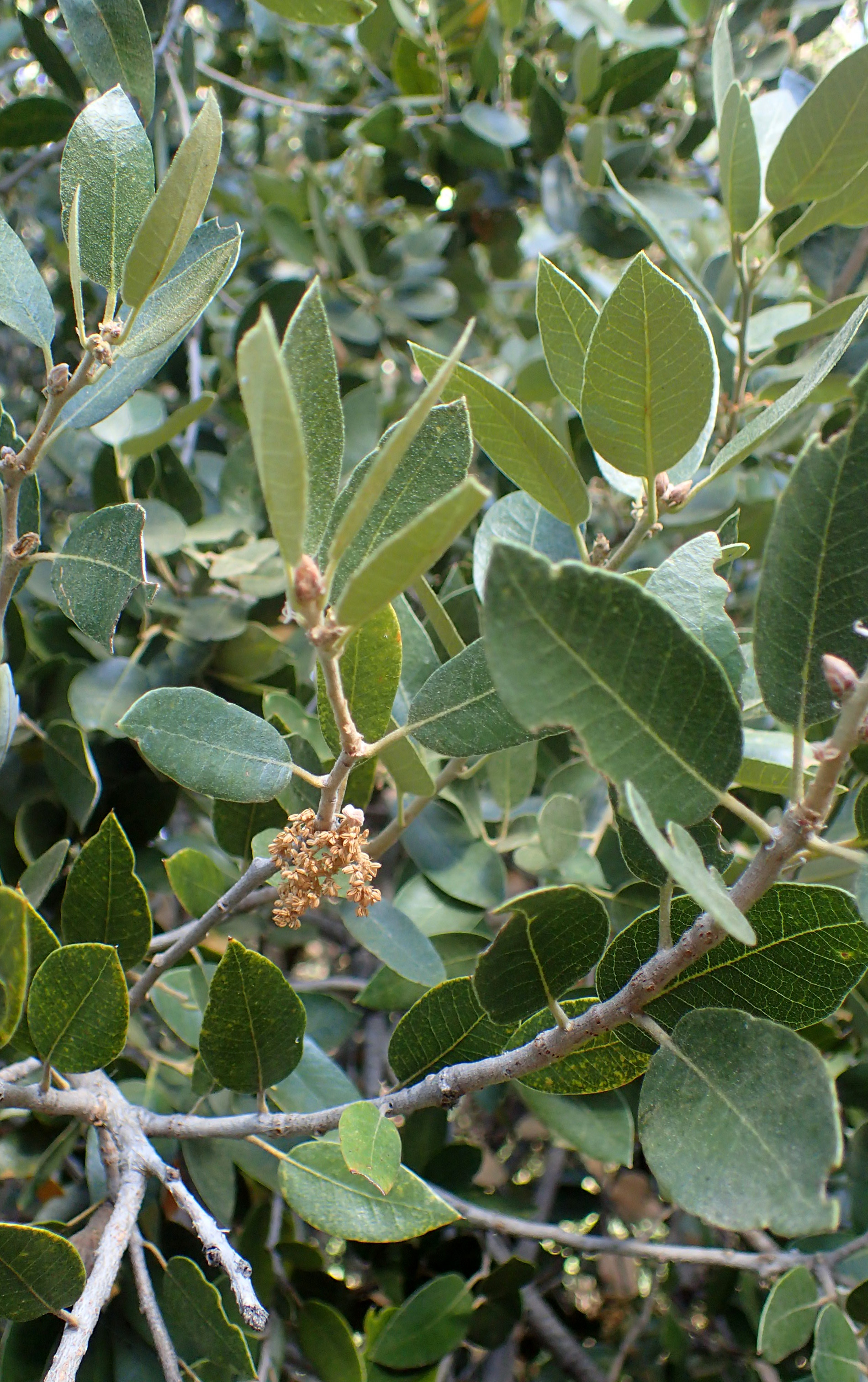 Quercus chrysolepis near Potwisha Kaweah River, Sequoia National Park, California